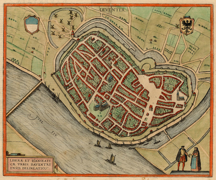 Siege of Deventer 1578